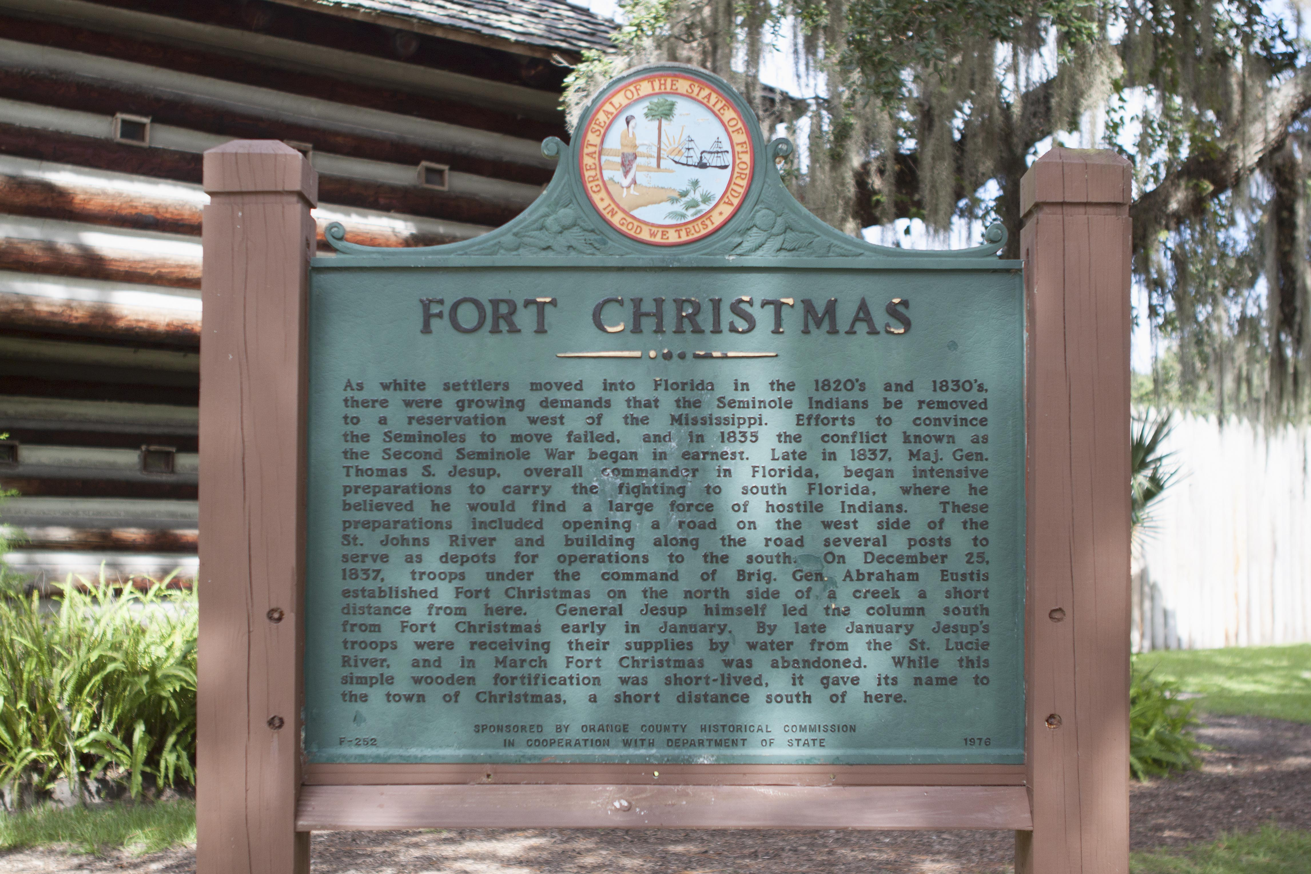 The historical marker located at the Fort Christmas Historical Park describing the history of Fort Christmas. The marker was set in place by the Orange County Historical Society and the Florida Department of State.